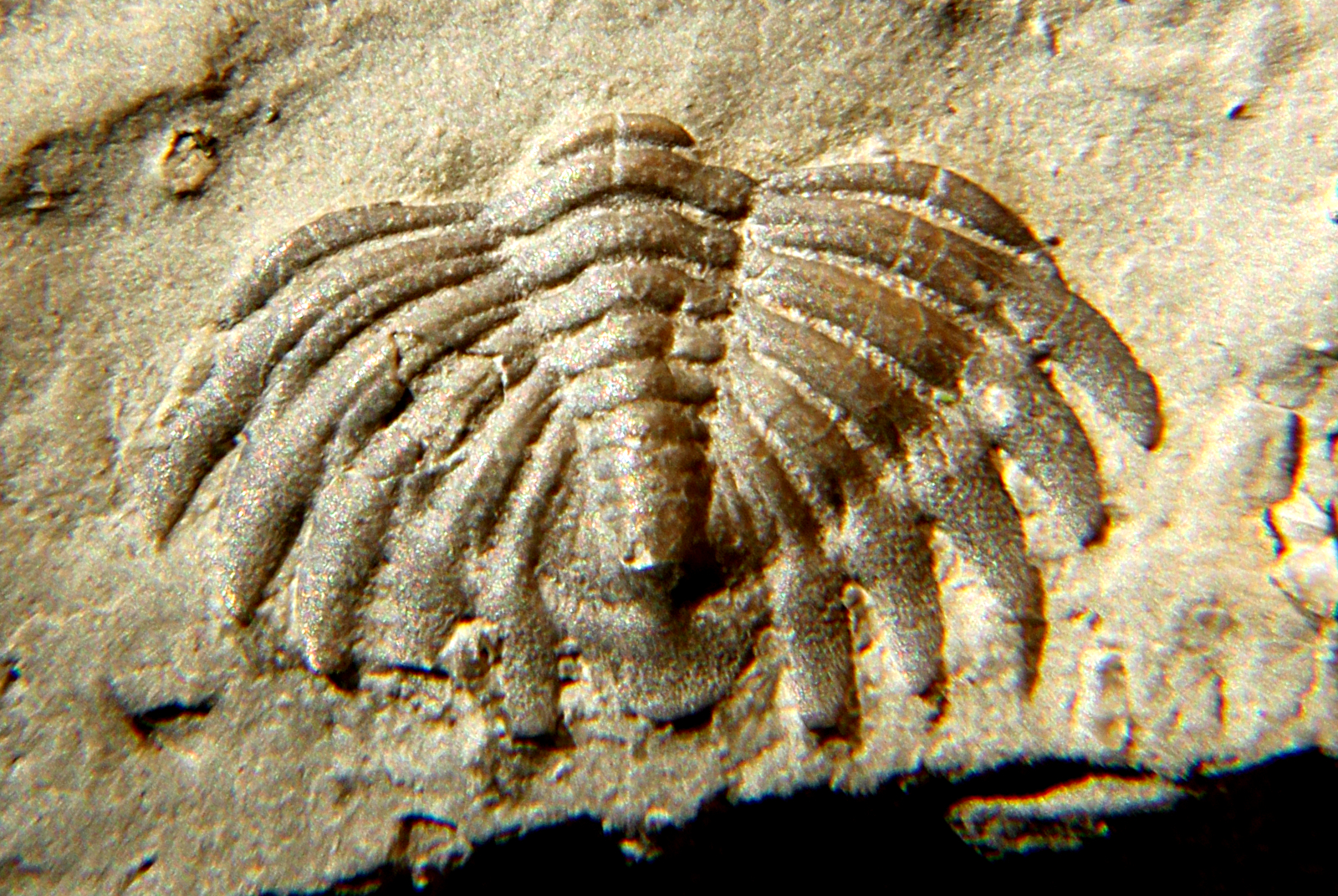 A pygidium of Bellacartwrightia calliteles trilobite, Order Phacopida, Family Acastidae, 7mm, collected at the Penn Dixi Quarry, Window Shale Member, Moscow Formation Hamburg NY USA, from the Middle Devonian (Givetian)